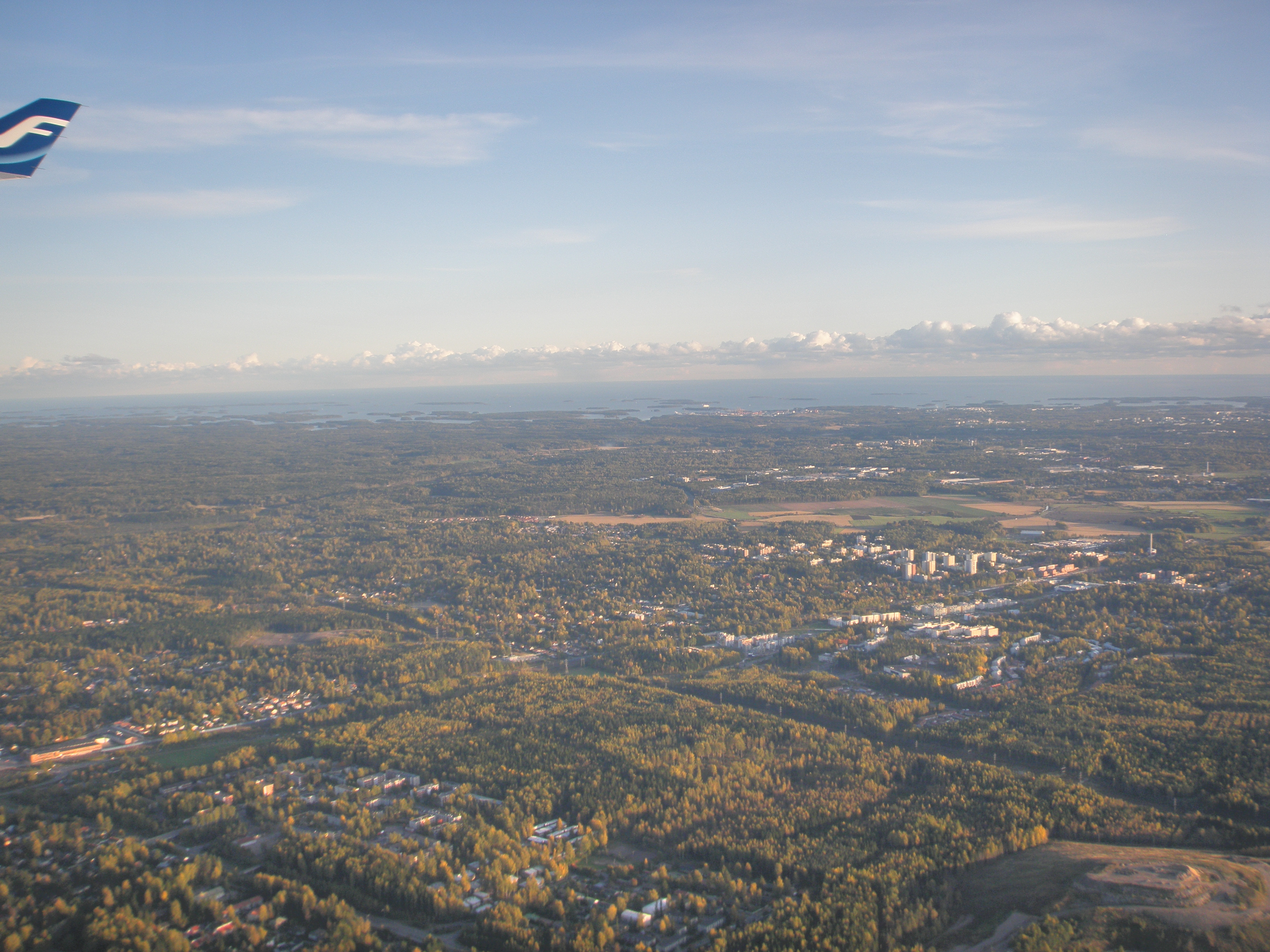 Rekola in Vantaa, Finland from air